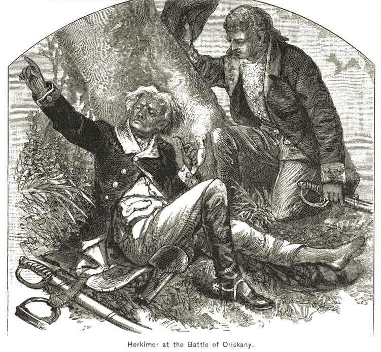 Illustration of General Nicholas Herkimer at the Battle of Oriskany, New York, 1777